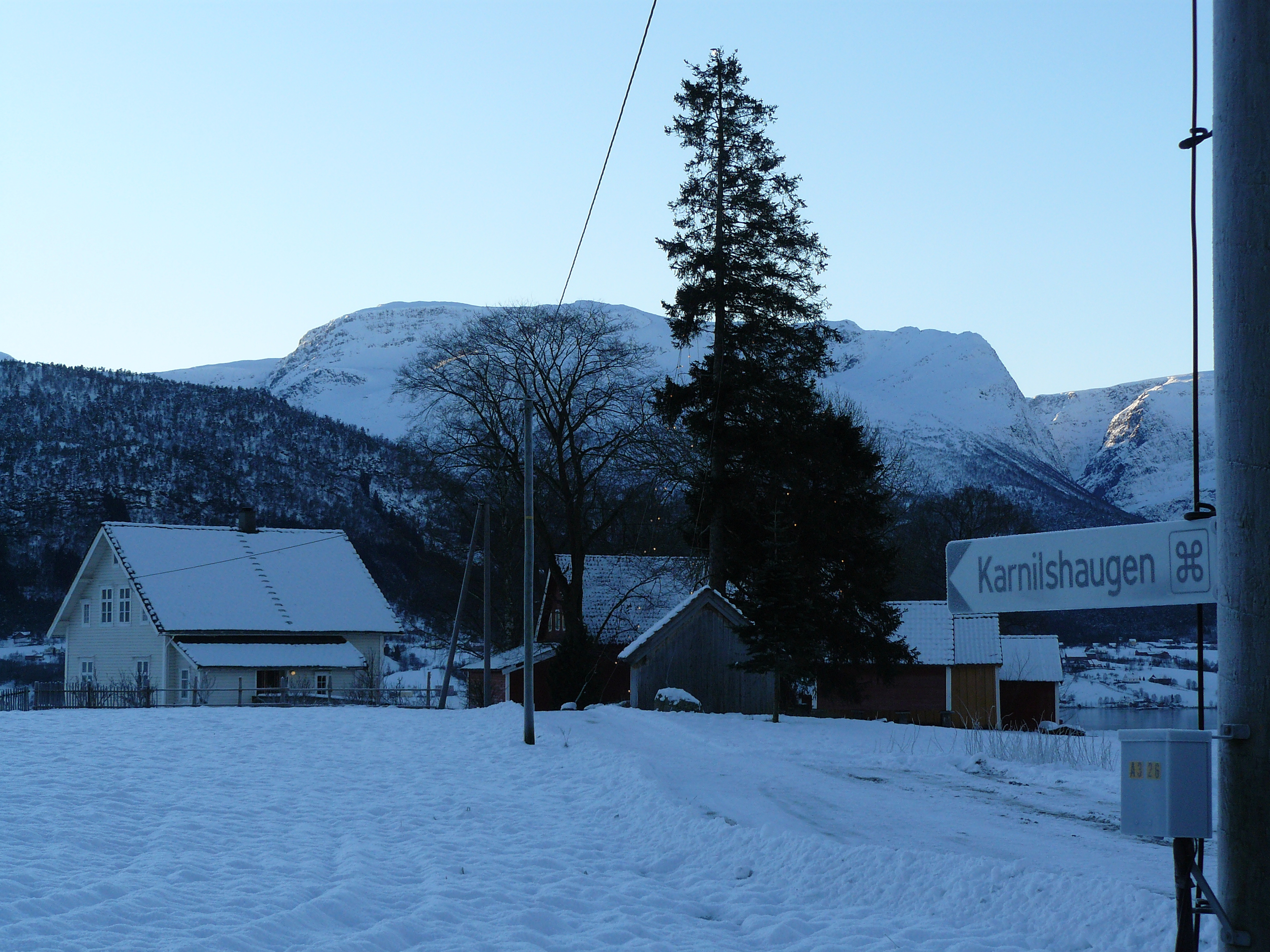 Karnilstunet (farm) with Karnilshaugen, in Gloppen Norway